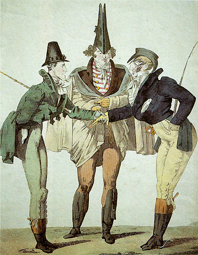 a satire on male fashions from Caricatures Parisiennes, 1802. (The original "Incroyables" were males who took up cutting-edge or extreme fashions in the 1790s; their female counterparts were the "Merveilleuses".)